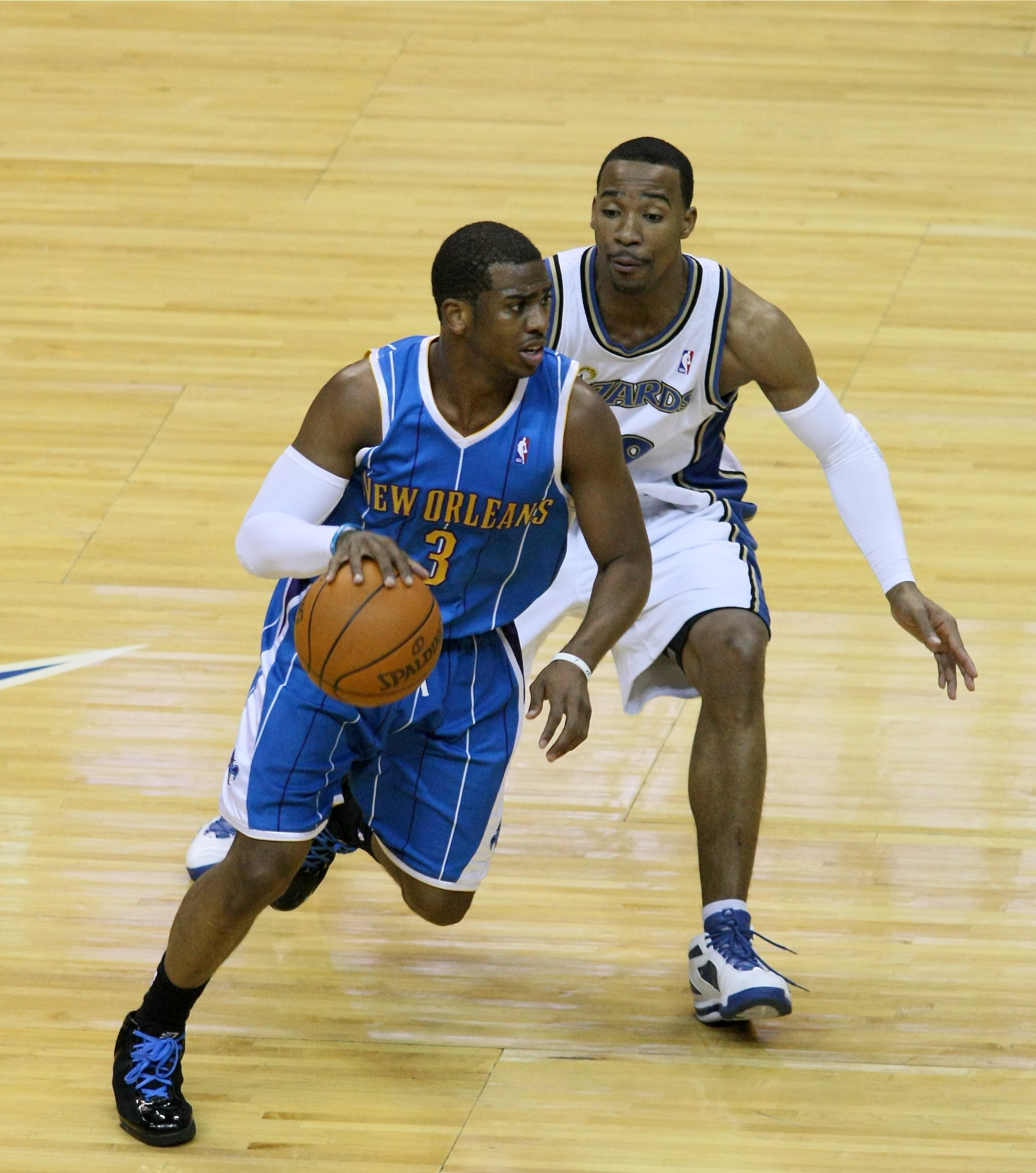 Chris Paul dribbling the ball